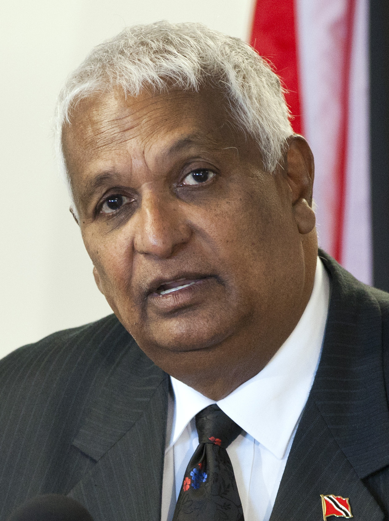 Puerto España (Trinidad y Tobago), 20 de agosto 2013. Los Cancilleres de Trinidad y Tobago, Winston Dookeran, y de Ecuador, Ricardo Patiño, ofrecieron una rueda de prensa, posterior a su reunión.